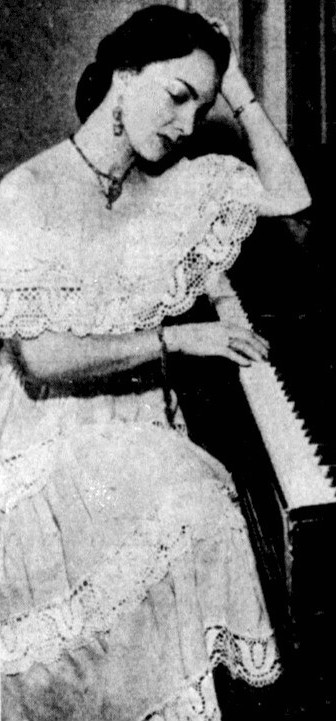 Photo of Lillian Molieri fron 1953.